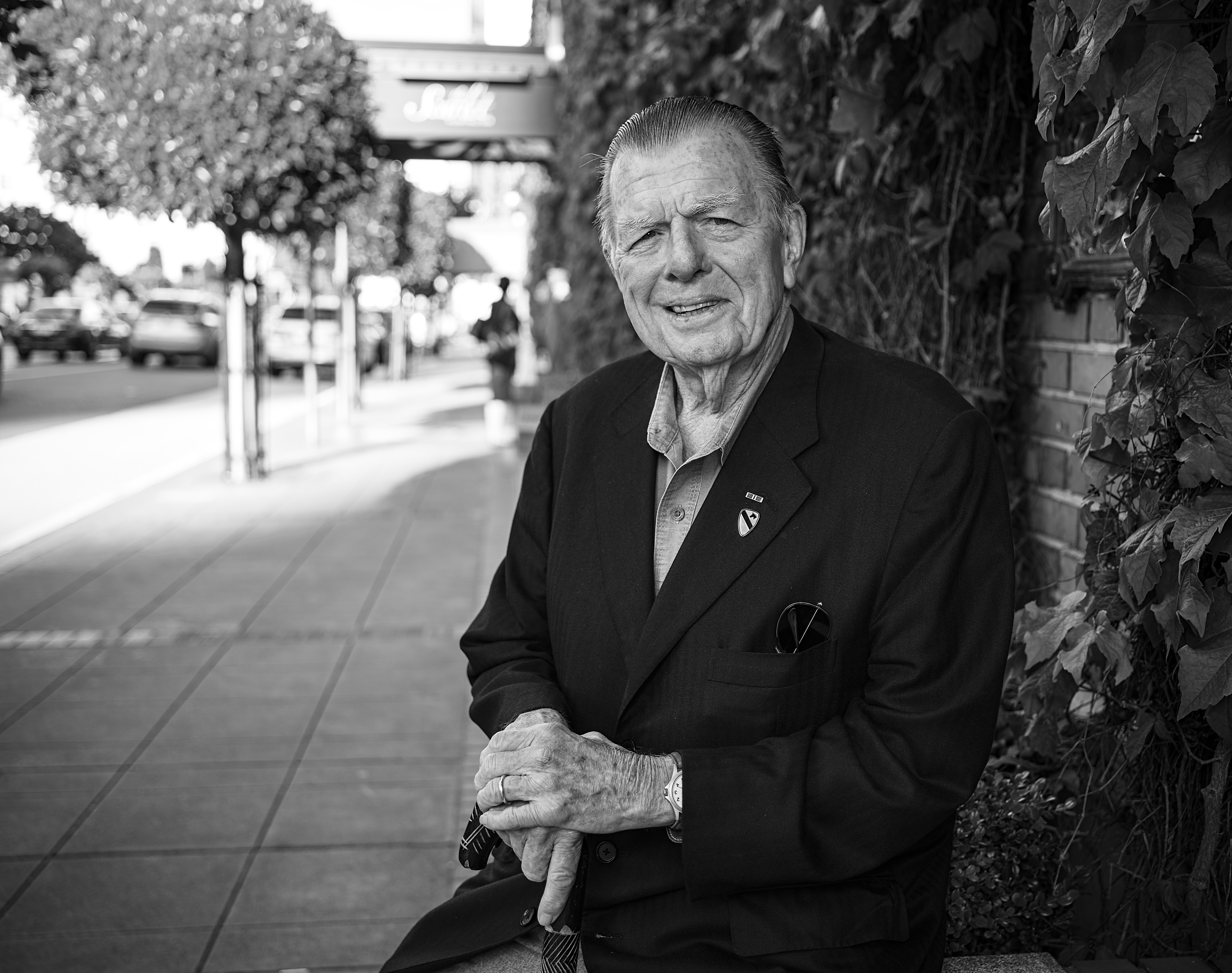 Joe Galloway photographed by Christopher Michel in San Francisco in 2017.